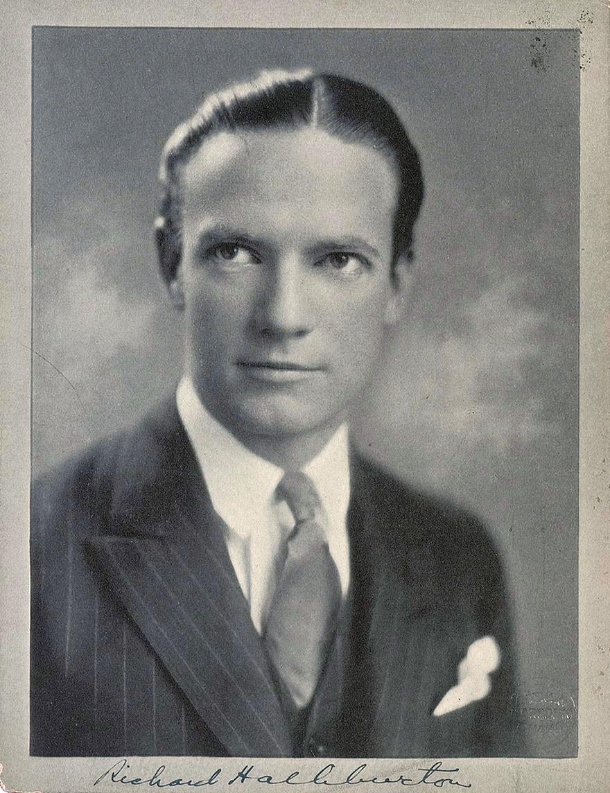 Head shot of the 20th century explorer Richard Halliburton